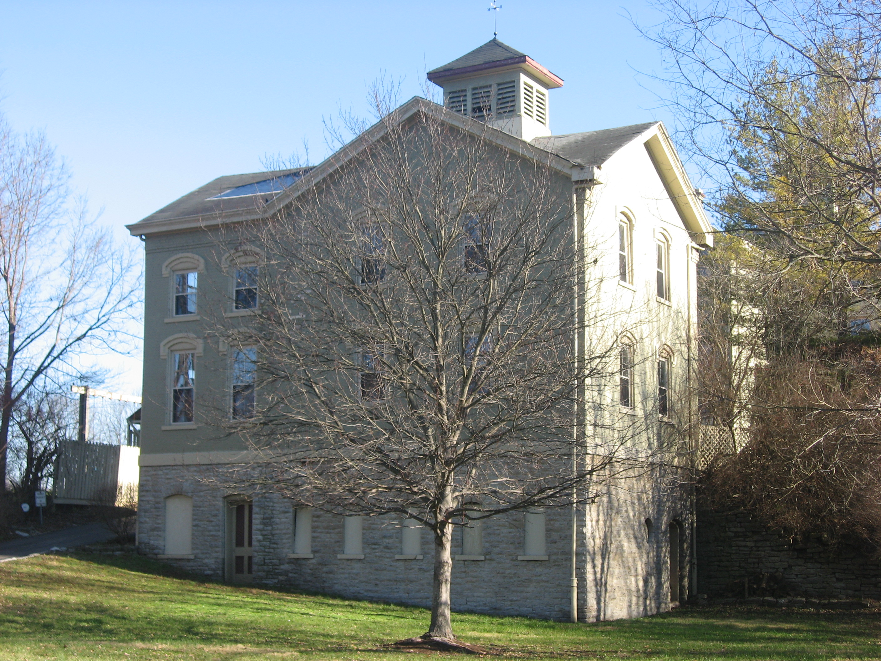 Western side of the barn associated with the Hugh Campbell House, located on the eastern side of Featherwood Drive in Harrison, Ohio, United States. Built in 1858, the house and barn are listed together on the National Register of Historic Places.